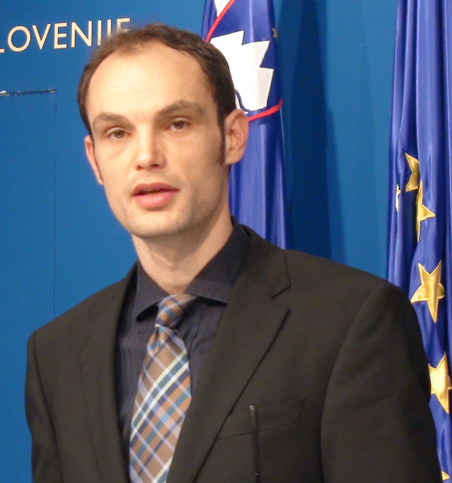 Anže Logar, Slovenian politician